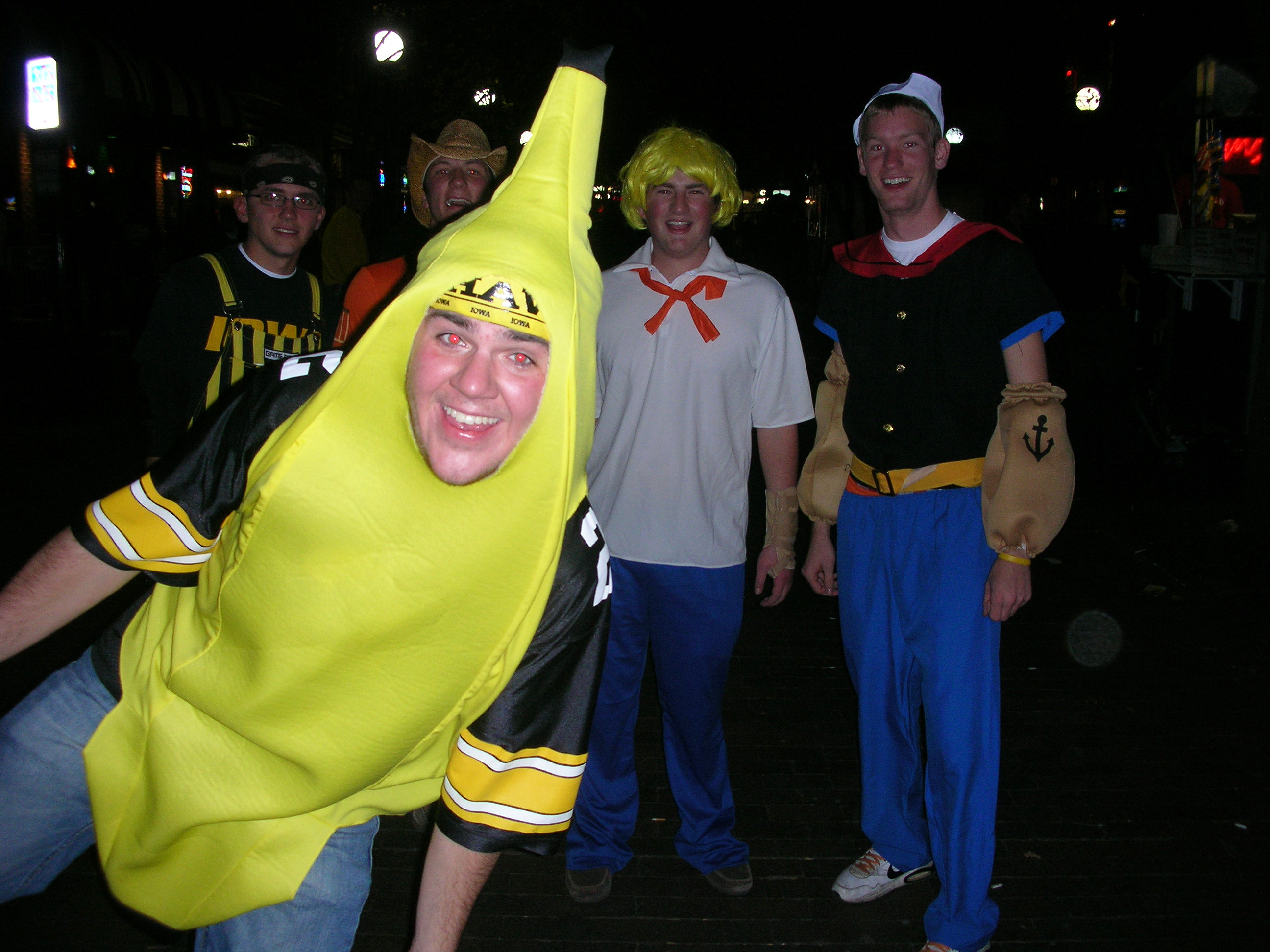 Halloween in Iowa City, 2010 Photobomb - This guy jumped in the picture as the flash went off. - October 30, 2010